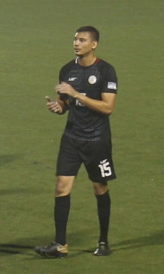 Filipino goalkeeper, Nick O'Donnell